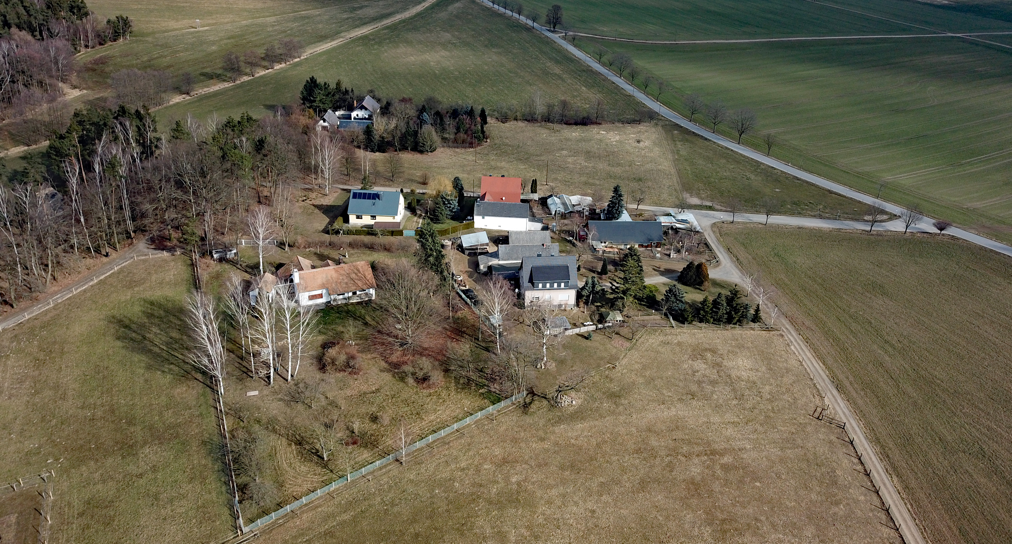 Dreihäuser (Räckelwitz, Saxony, Germany) Hornjoserbsce: Powětrowy wobraz Hornjeho Hajnka